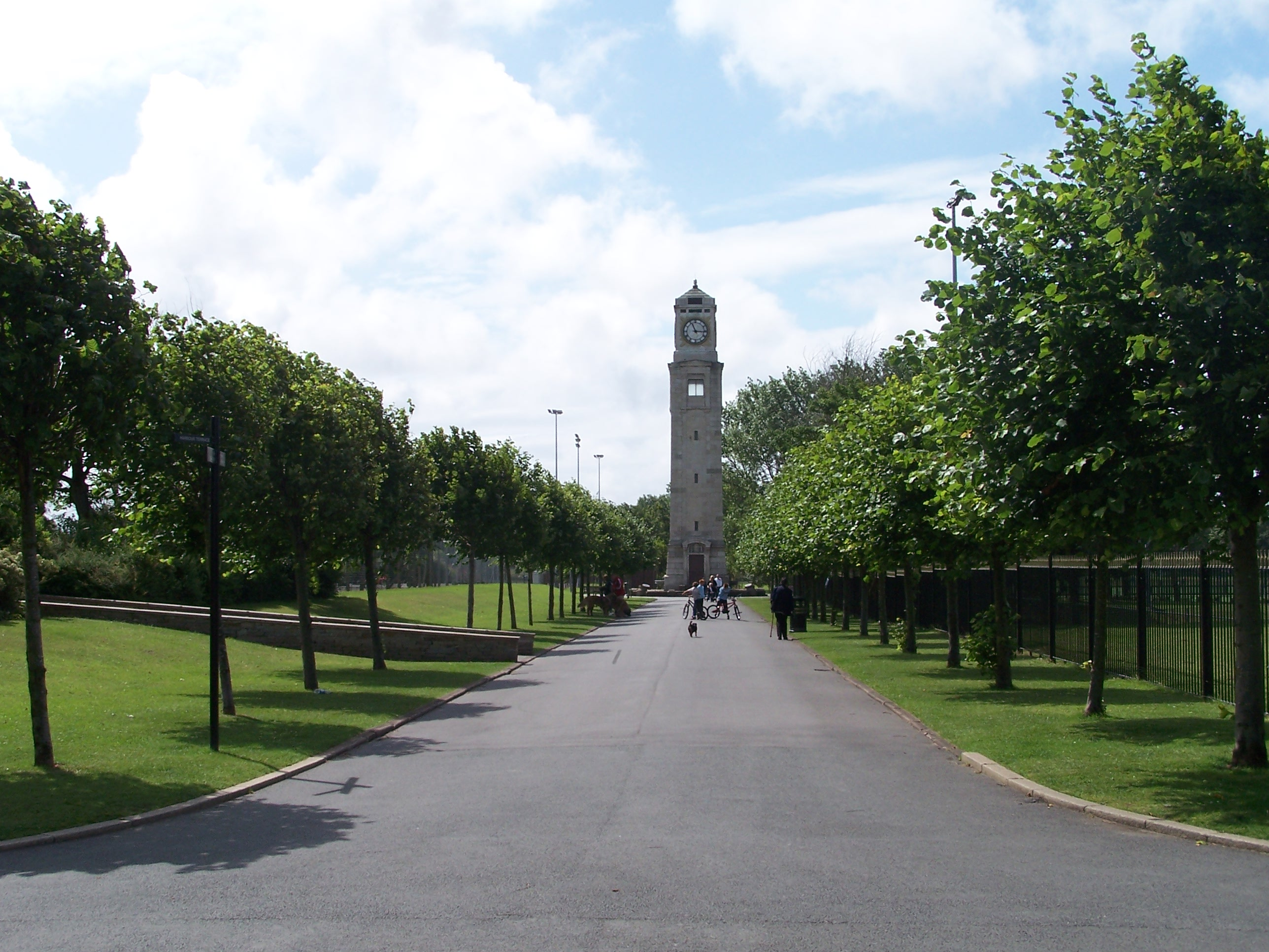 Clock Tower, Stanley Park, Blackpool